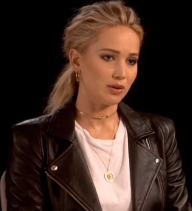 Jennifer Lawrence in an interview for Red Sparrow in 2018